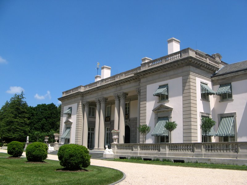 Front view of the Nemours Mansion, Wilmington, DE.